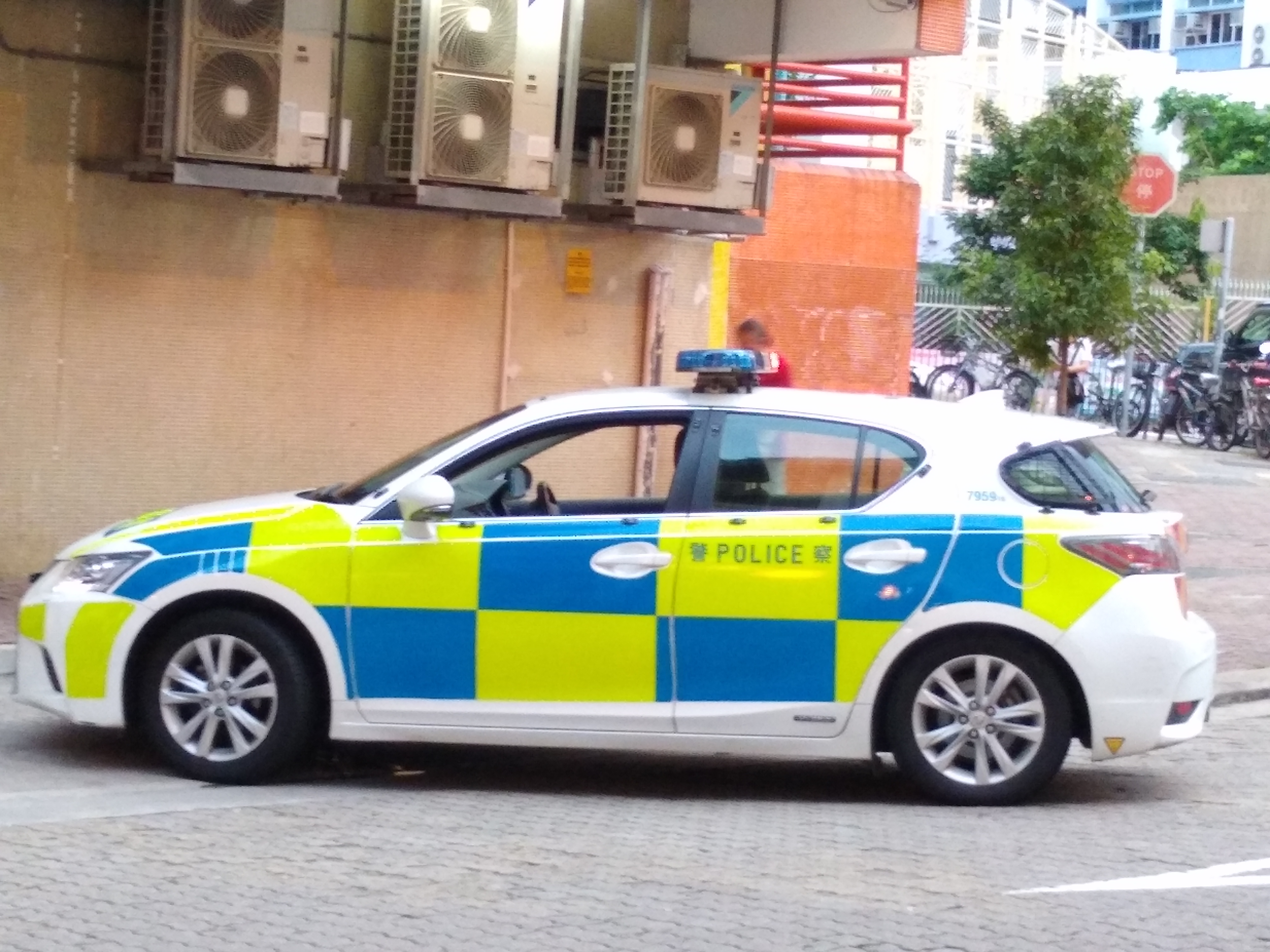 A Hong Kong police car, with a similar colouring scheme to British cars, on the street.